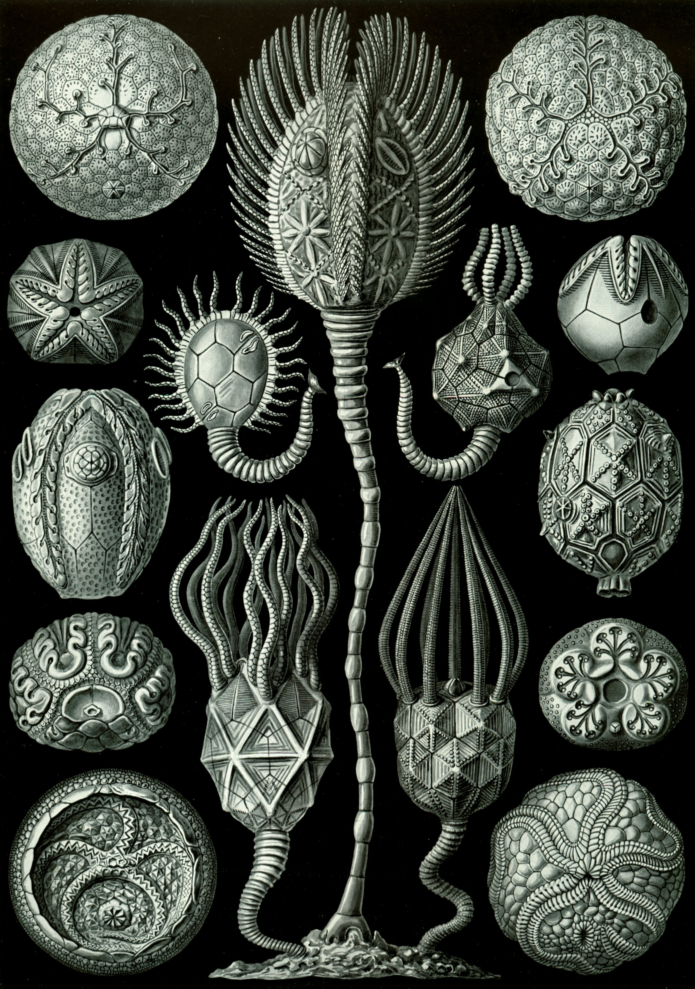 Staurocystis quadrifasciata (Haeckel) = Staurocystis quadrifasciata (Pearce, 1843) Glyptosphaera Leuchtenbergii (Johannes Müller) = Glyptosphaerites leuchtenbergi (Volborth, 1846), calyx from above Protocrinus fragum (Eichwald) = Protocrinites fragum Eichwald, 1860, calyx from above Cystoblastus Leuchtenbergii (Volborth) = Cystoblastus leuchtenbergi Volborth, 1867, calyx from above Cystoblastus Leuchtenbergii (Volborth) = Cystoblastus leuchtenbergi Volborth, 1867, calyx from the anal side Pseudocrinus bifasciatus (Pearce) = Pseudocrinites bifasciatus (Pearce, 1843) Sycocystis angulosa (Leopold Buch) = Echinoencrinites angulosus (Pander, 1830) Callocystis Jewetti (Hall) = Callocystites jewetti Hall, 1852, calyx from the anal side Hemicosmites extraneus (Eichwald) = Hemicosmites extraneus Eichwald, 1840, calyx from the anal side Glyptocystis multipora (Billings) = Glyptocystites multiporus Billings, 1854, calyx from above Glyptocystis pentapalma (Haeckel) = Glyptocystites sp.?, mouth region from above Chirocrinus testudo (Haeckel) = Cheirocrinus sp.? Caryocrinus ornatus (Thomas Say) = Caryocrinites ornatus Say, 1825 Agelacystis hamiltonensis (Haeckel) = Agelacrinites hamiltonensis Vanuxem, 1842, calyx from above Agelacrinus vorticellatus (Hall) = Streptaster vorticellatus (Hall, 1866), calyx from above